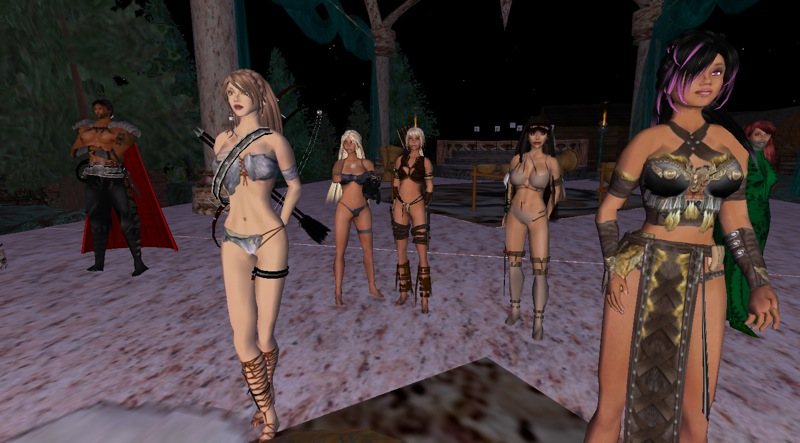 Panthers attending the Thentis town meeting (scene of avatars from "Second Life" online site). NOTE: This is a manifestation of Gorean fandom which is not necessarily fully authentic to the Gor books as originally written by John Norman (Norman probably intended panther girl attire to look much more like File:Dulcie Deamer in leopardskin costume.jpg, and in the books panther girls almost never venture openly into the cities...).